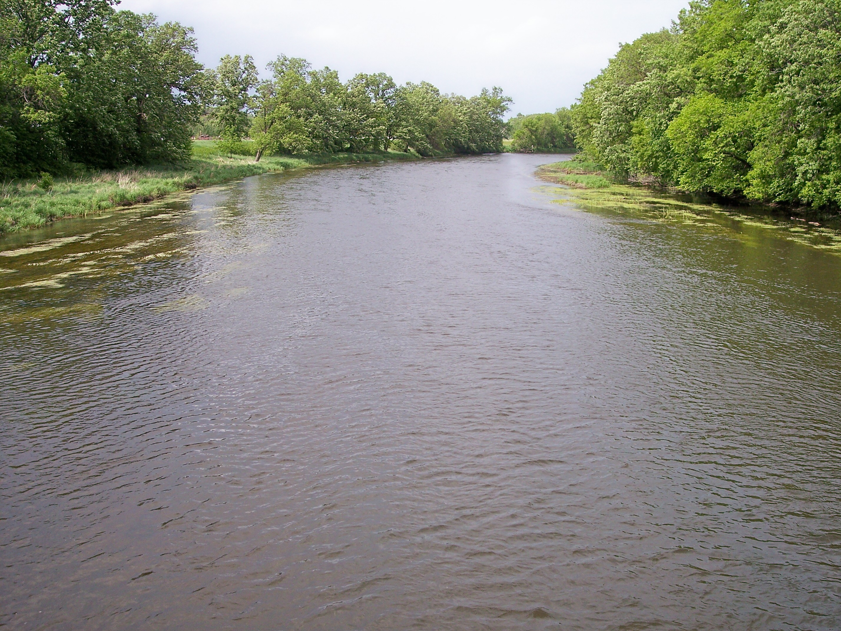 The Long Prairie River as viewed from 400th Street, a rural road in Moran Township, Minnesota.